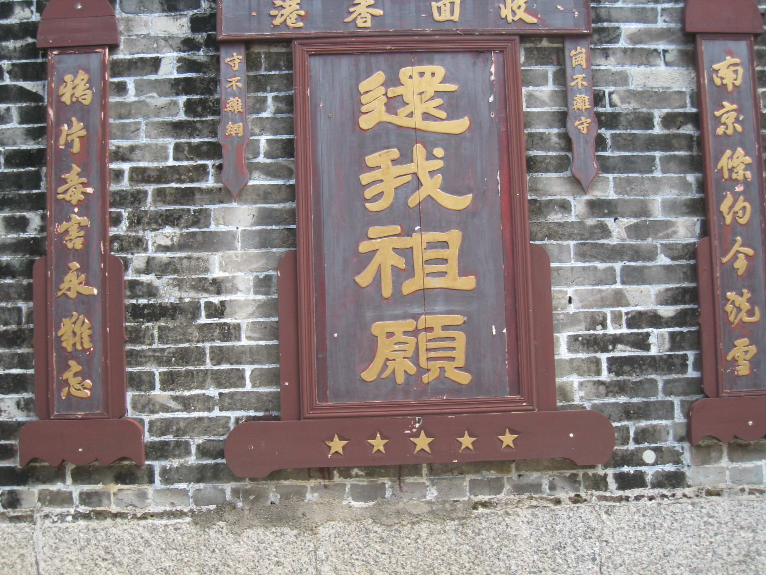 Words of Lan Enjue on a wooden planks and duilian. About his wish to get back Hongkong in Chinese hands.